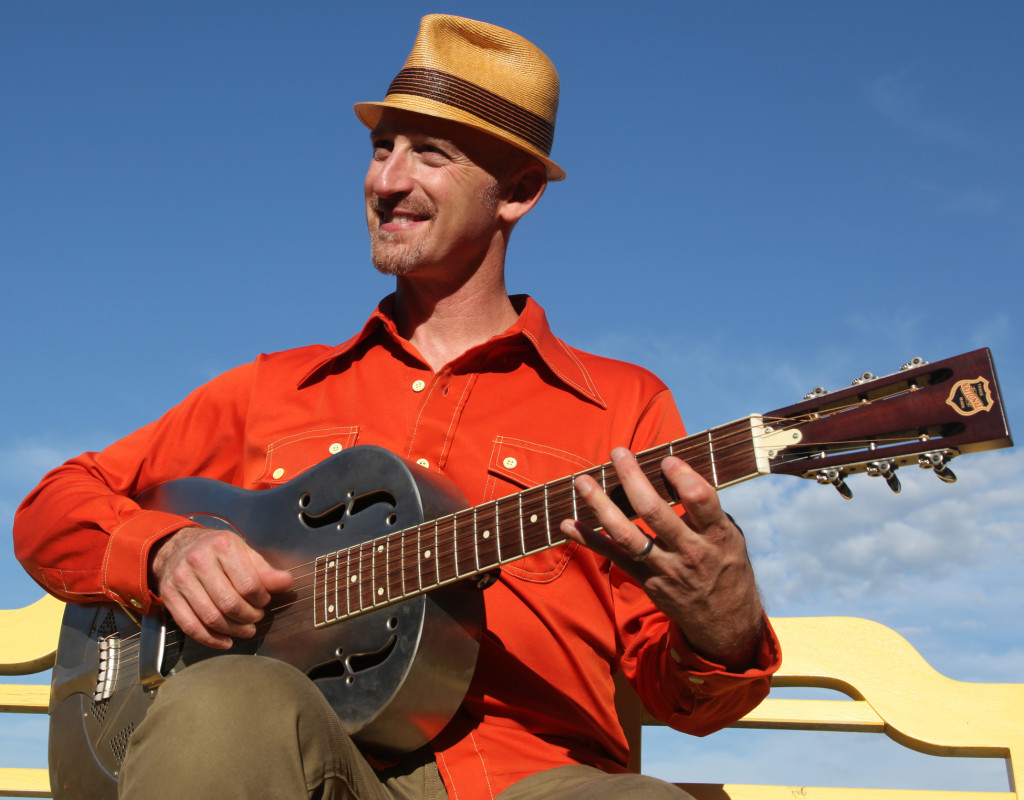 Mister G with guitar on yellow bench